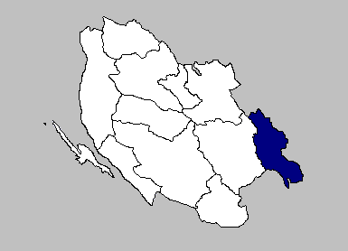 Self-made map of the Donji Lapac municipality within the Lika-Senj County.